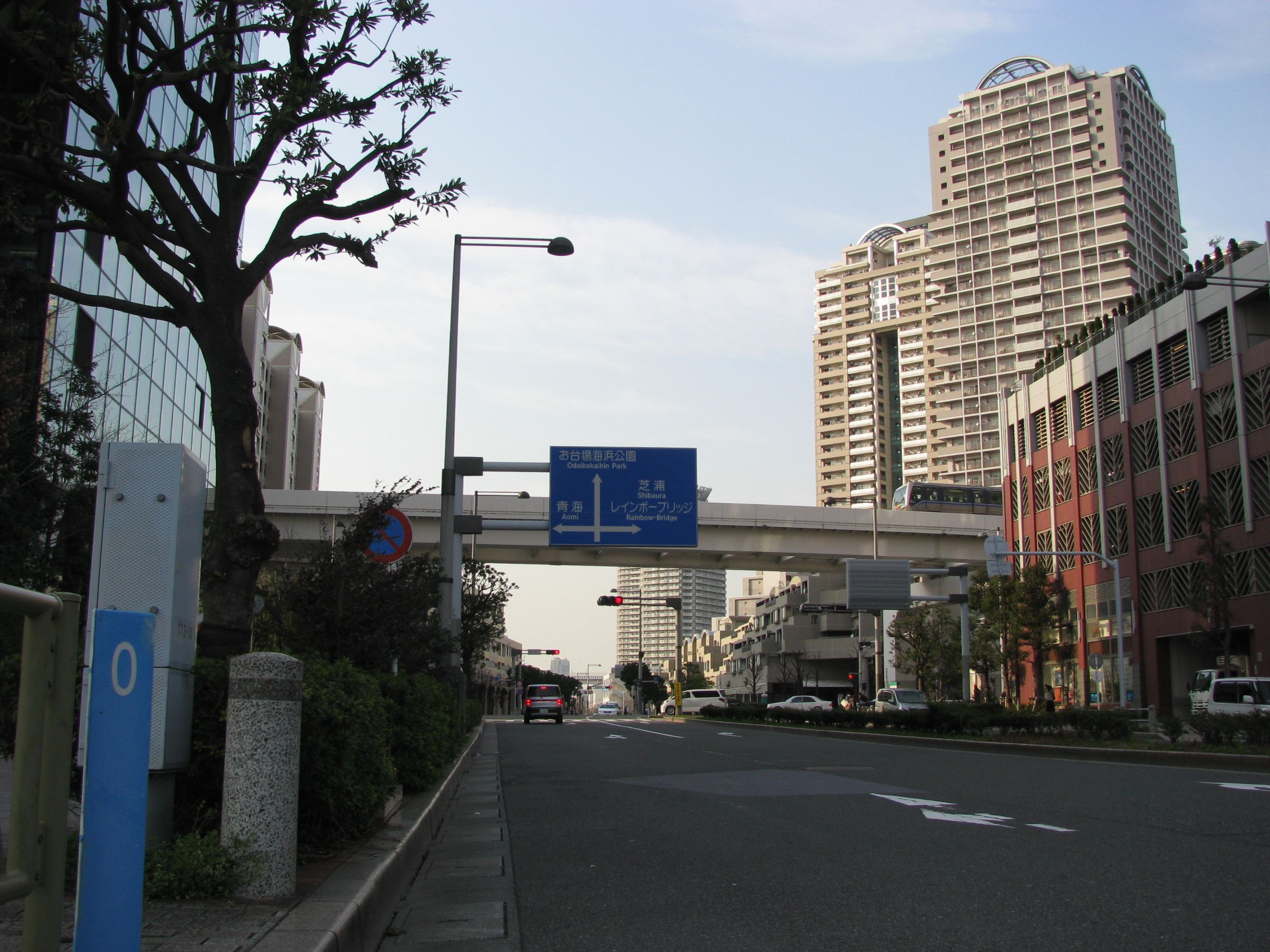 The Tokyo Prefectural Route 482. This location is Daiba in Minato, Tokyo, Japan.